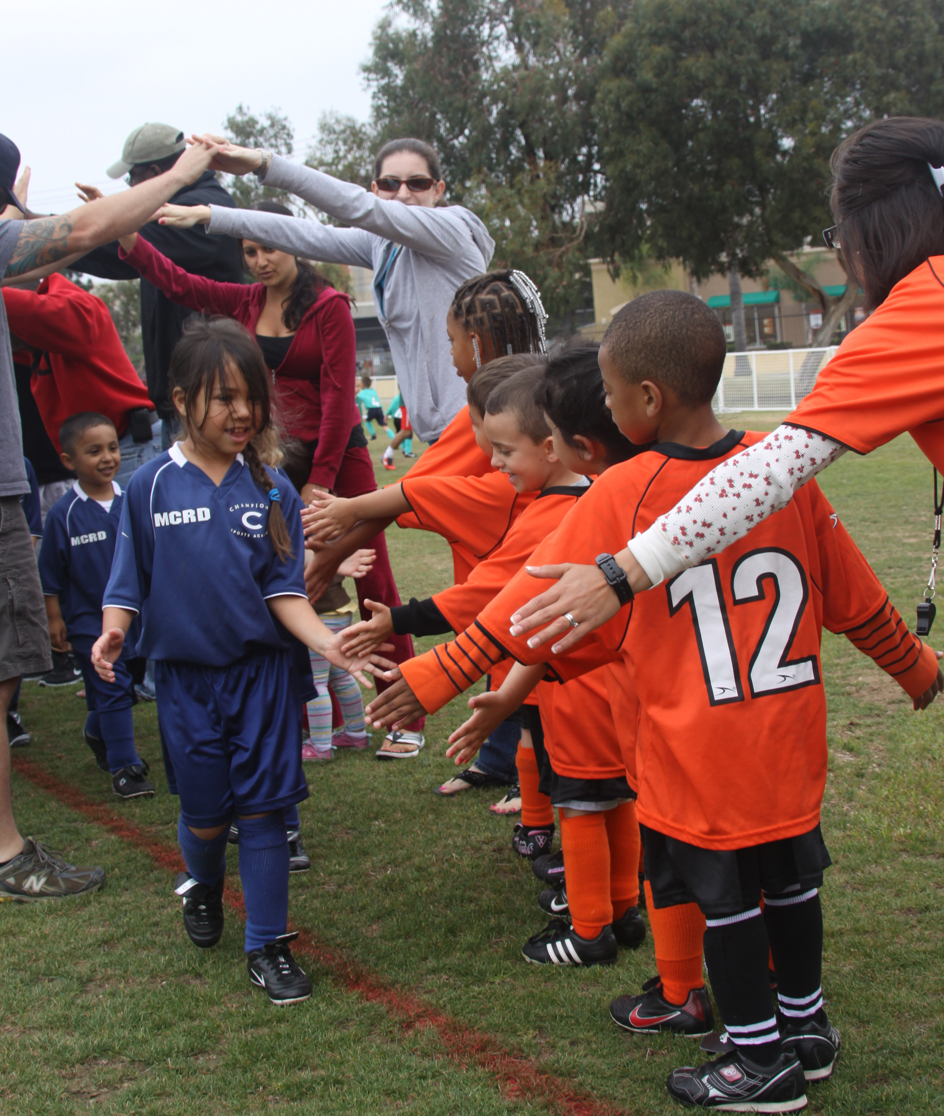 The children shake hands with each other after a soccer match May 7 at Marine Corps Recruit Depot San Diego. This helps promote good sportsmanship between competing teams.